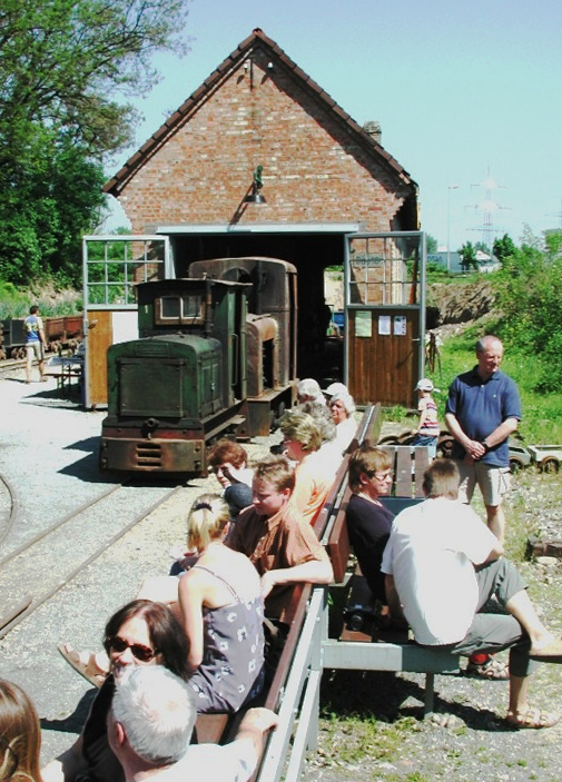 Locomotive shed and exhibition place of the Wiesloch Feldbahn and Industrial Museum